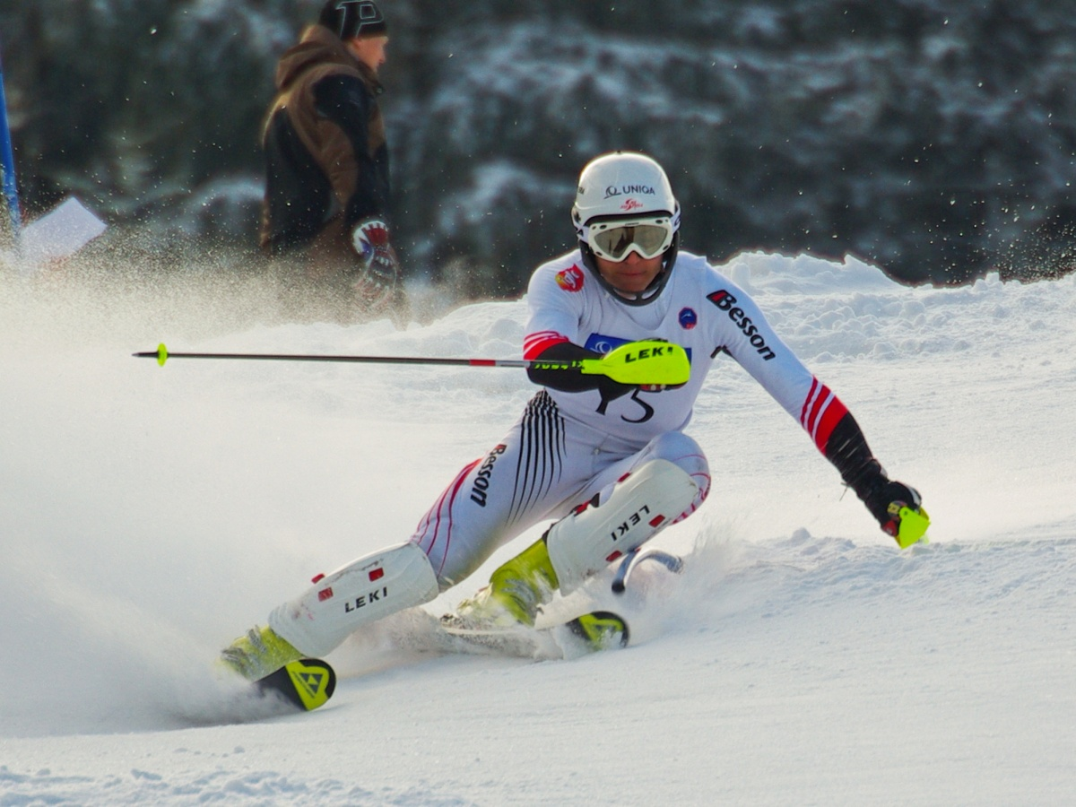 Austrian alpine skier Manuel Wieser in the second slalom run at the Austrian Junior Championships 2008 in Lackenhof.